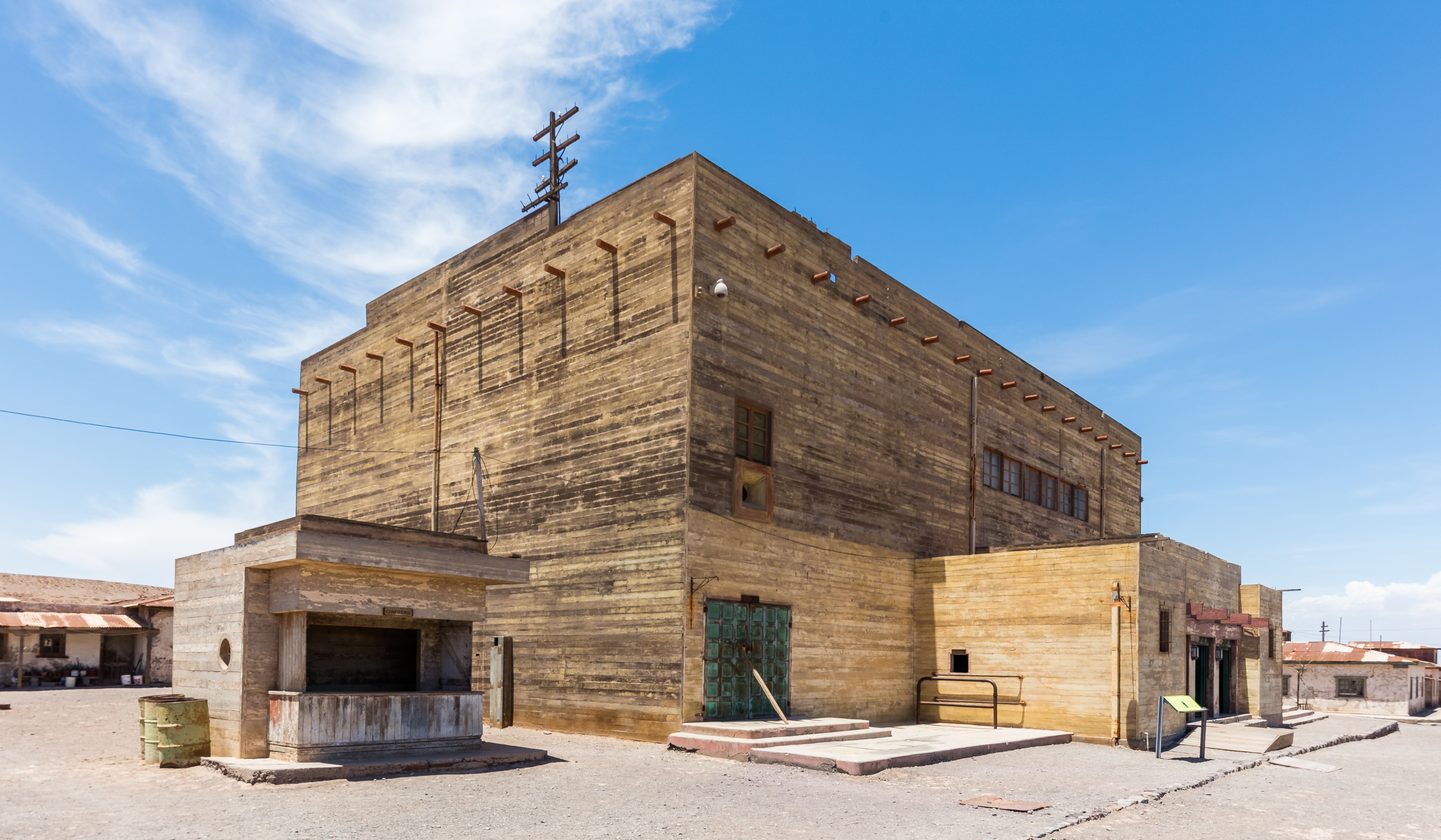 Humberstone and Santa Laura Saltpeter Office, Chile